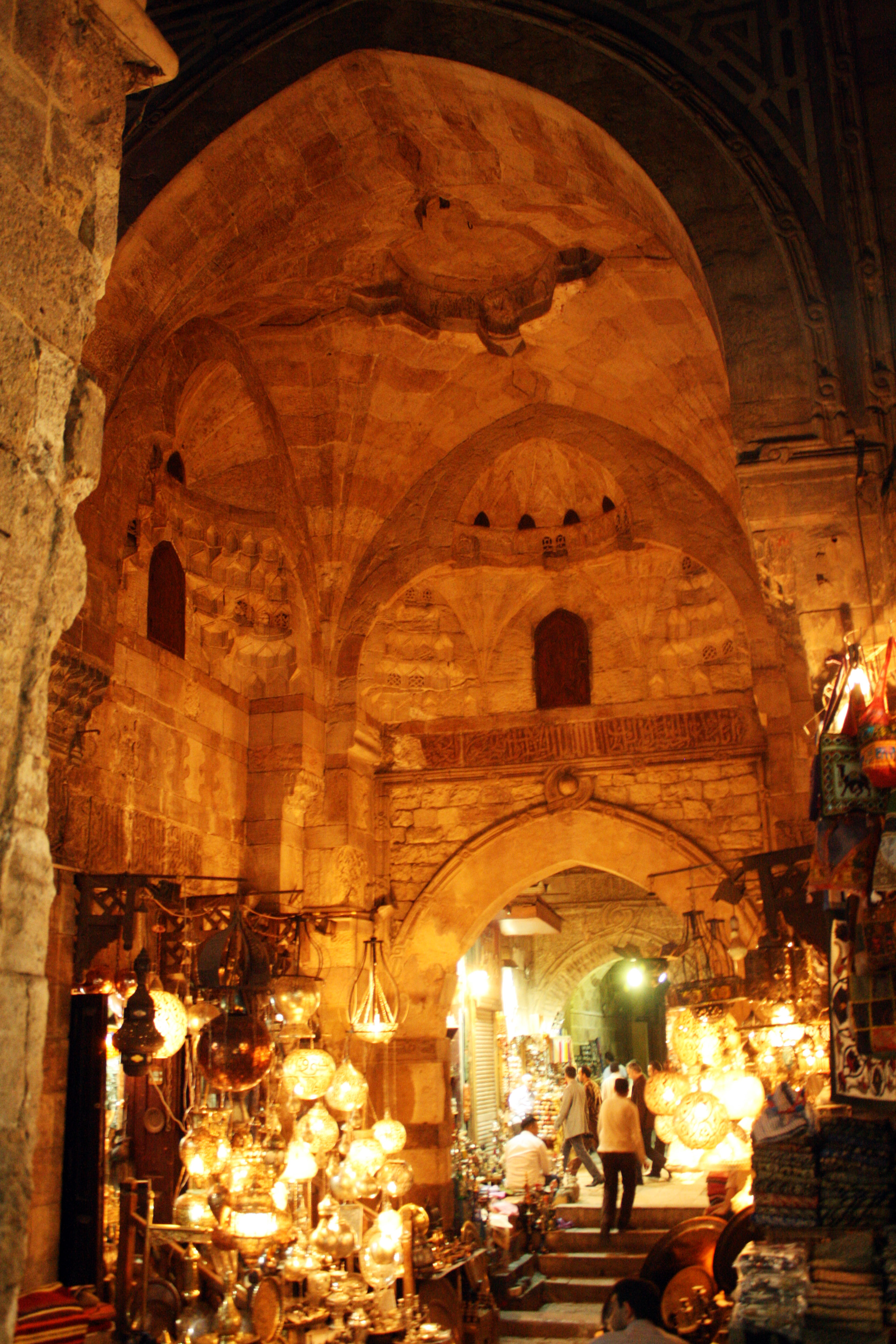 Khan el-Khalili is a souk-market in Old Cairo, Egypt.